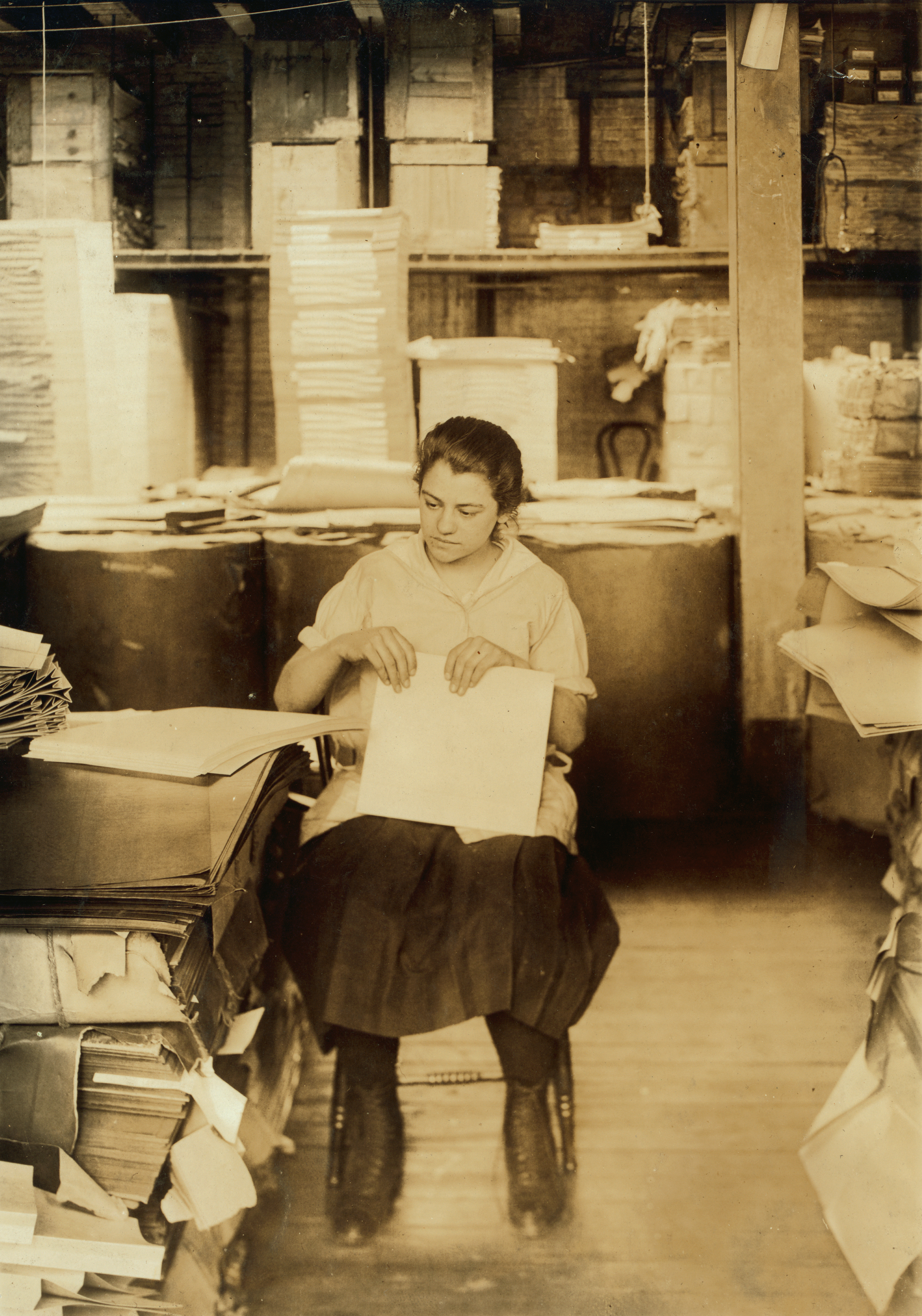 Title: Folding filing-folders. Boston Index Card Co., 113 Purchase Street. Boston, Mass. Location: Boston, Massachusetts / Lewis W. Hine. Creator: Hine, Lewis Wickes, 1874-1940 photographer Date Created/Published: 1917 January 31. Medium: 1 photographic print. Part of: Photographs from the records of the National Child Labor Committee (U.S.) Reproduction Number: LC-DIG-nclc-05172 (color digital file from b&w original print) Rights Advisory: No known restrictions on publication. Call Number: LOT 7483, v. 2, no. 4704 [P&P] Repository: Library of Congress Prints and Photographs Division Washington, D.C. 20540 USA